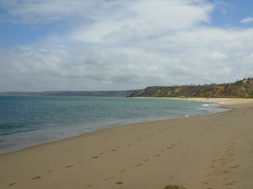 Beach in Cabo Ledo, Angola